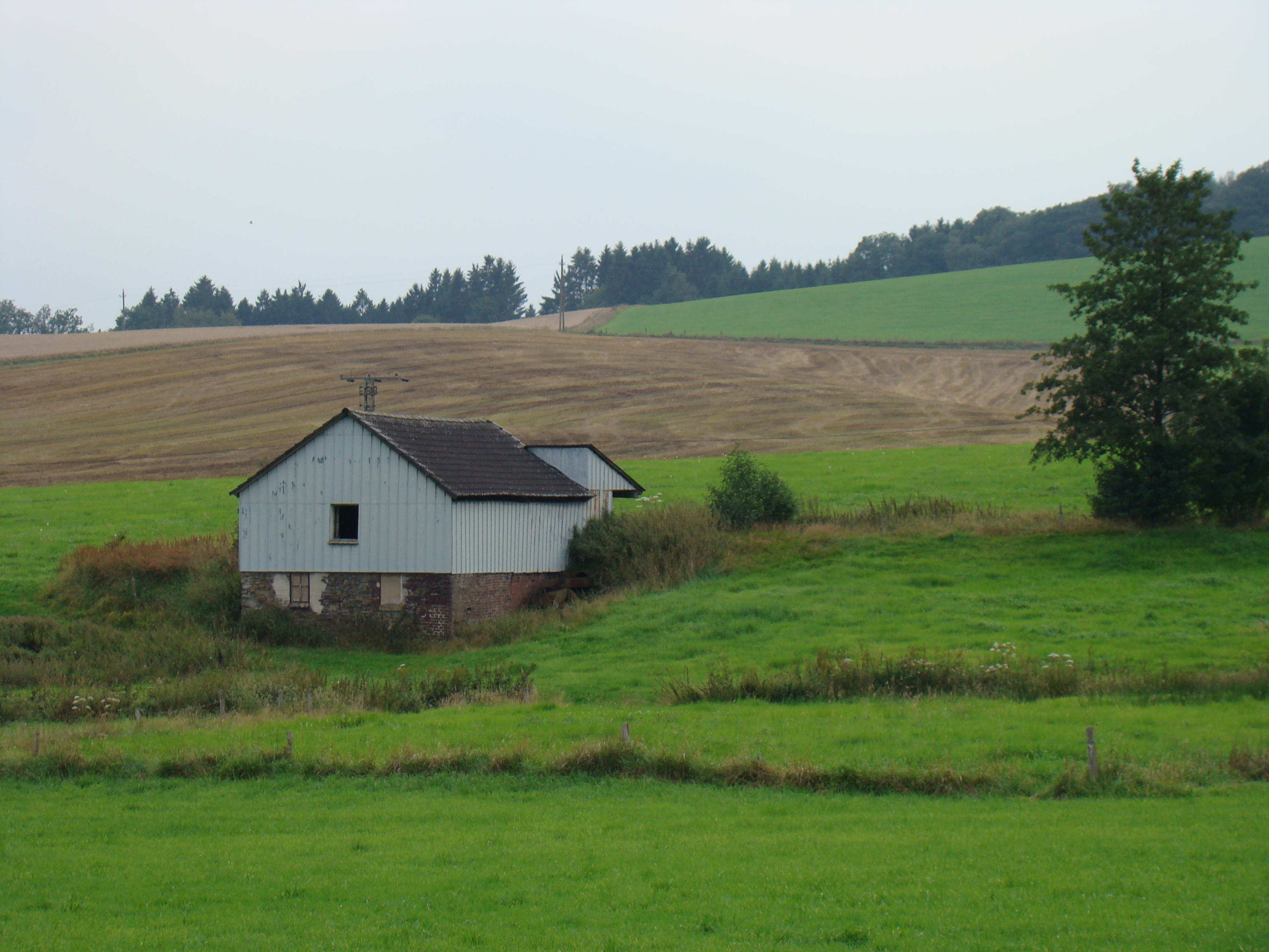 Watermill belonging to Wipperfürth Kotten